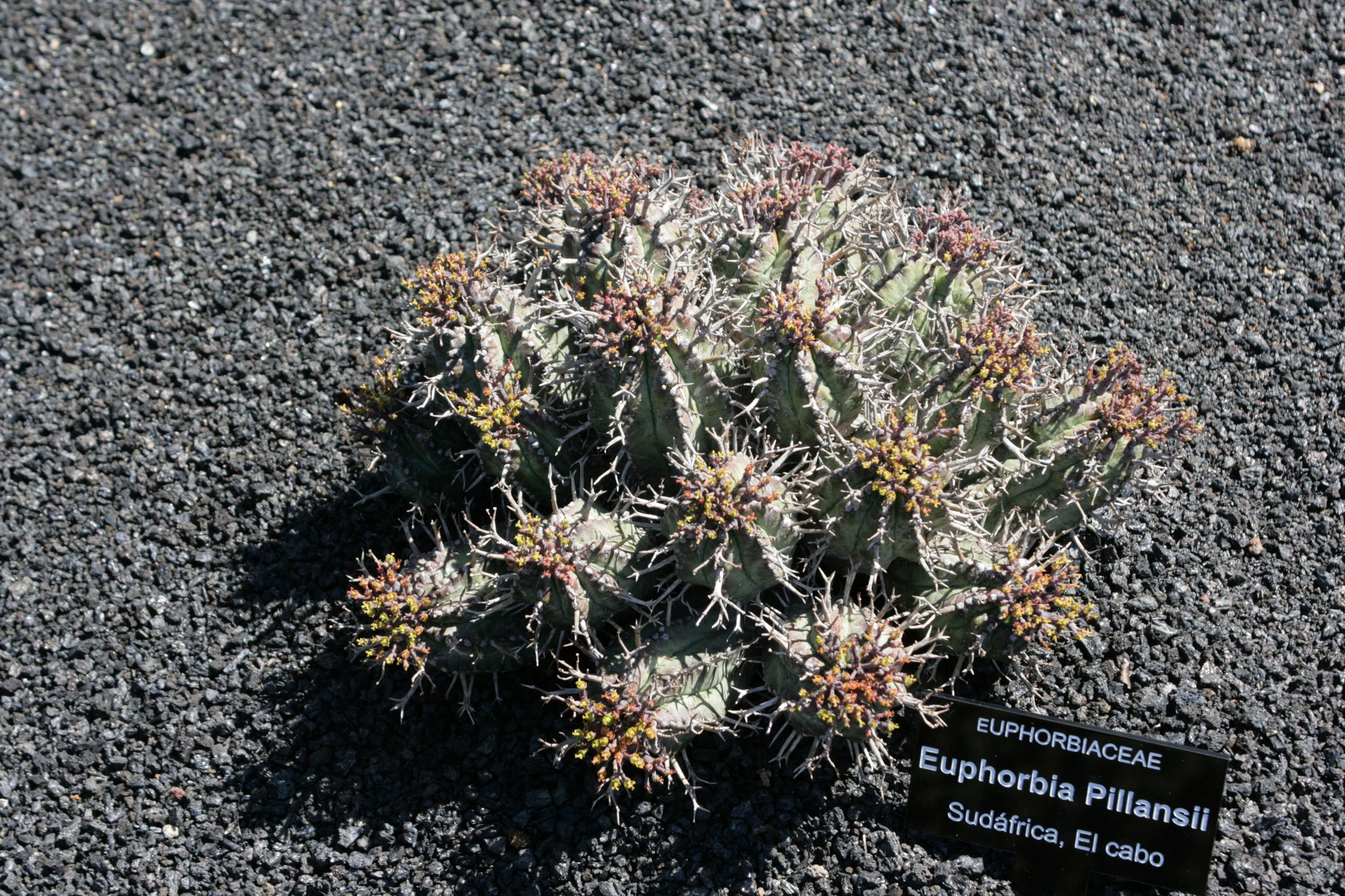 Euphorbia pillansii grown in the Botanical Garden “Jardin de Cactus” in Guatiza, Teguise, Lanzarote, Canary Islands